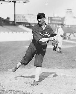 Chicago White Sox pitcher Eddie Cicotte at the Polo Grounds in 1913.